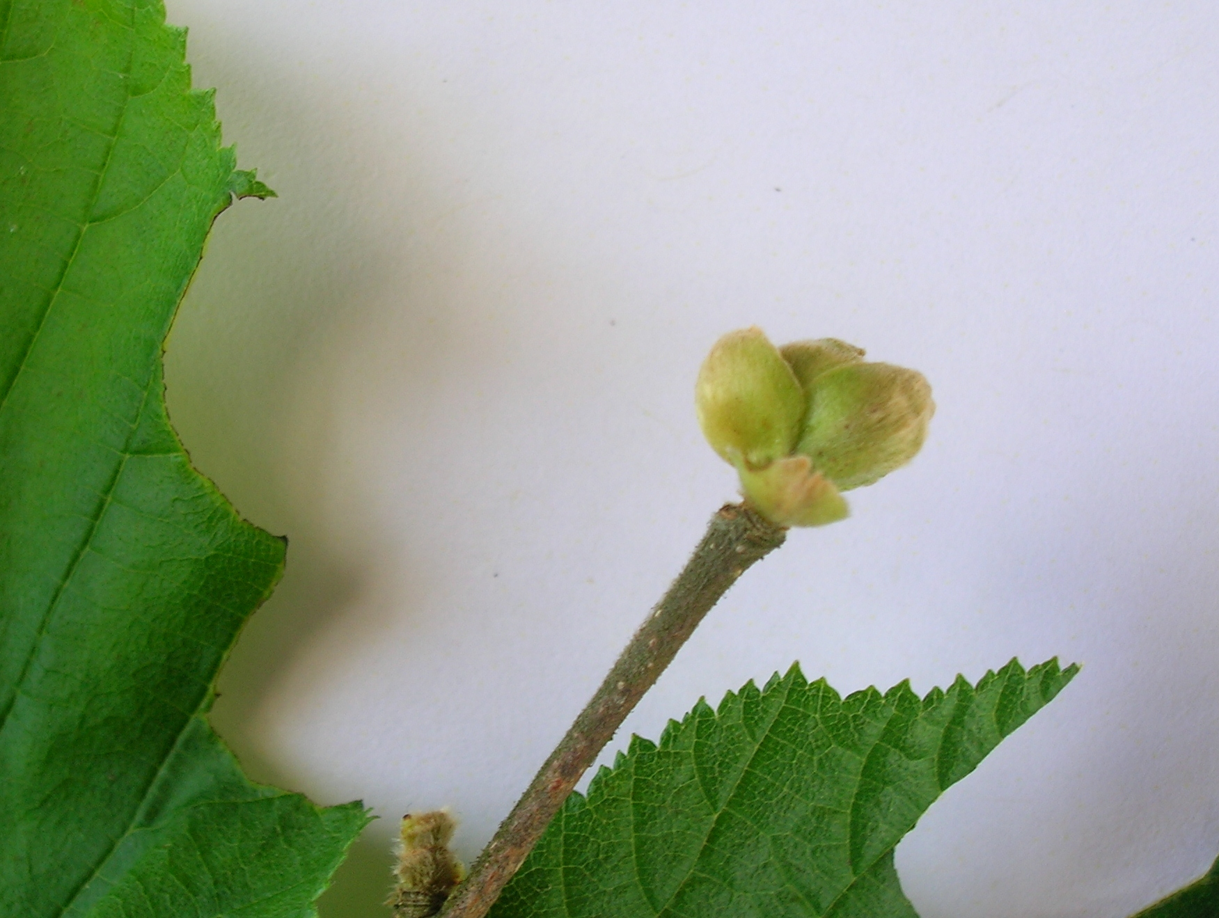 Big bud gall, Hazel shrub, Mauchline, East Ayrshire, Scotland.